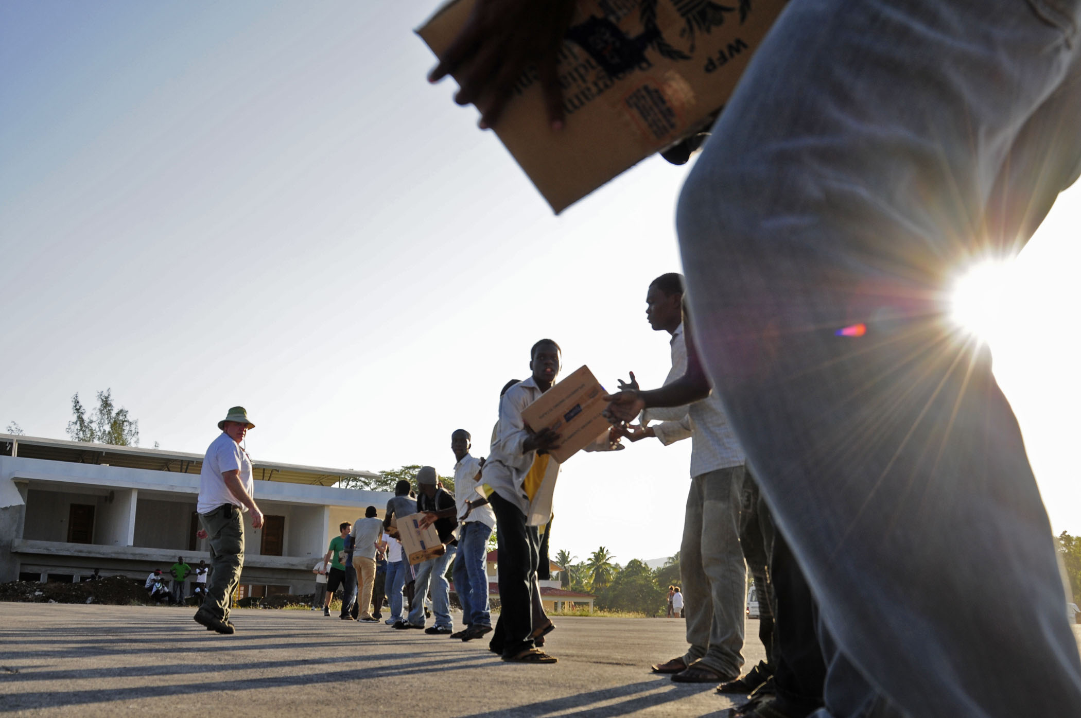 PORT-AU-PORT, Haiti (Jan. 18, 2009) United Nations volunteers and Haitian citizens unload supplies delivered by a helicopter assigned to Helicopter Sea Combat Squadron (HSC) 26 embarked aboard the aircraft carrier USS Carl Vinson (CVN 70). Carl Vinson and Carrier Air Wing (CVW) 17 are conducting humanitarian and disaster relief operations as part of Operation Unified Response after a 7.0 magnitude earthquake caused severe damage near Port-au-Prince on Jan. 12, 2010. (U.S. Navy photo by Mass Communication Specialist Seaman Aaron Shelley/Released)